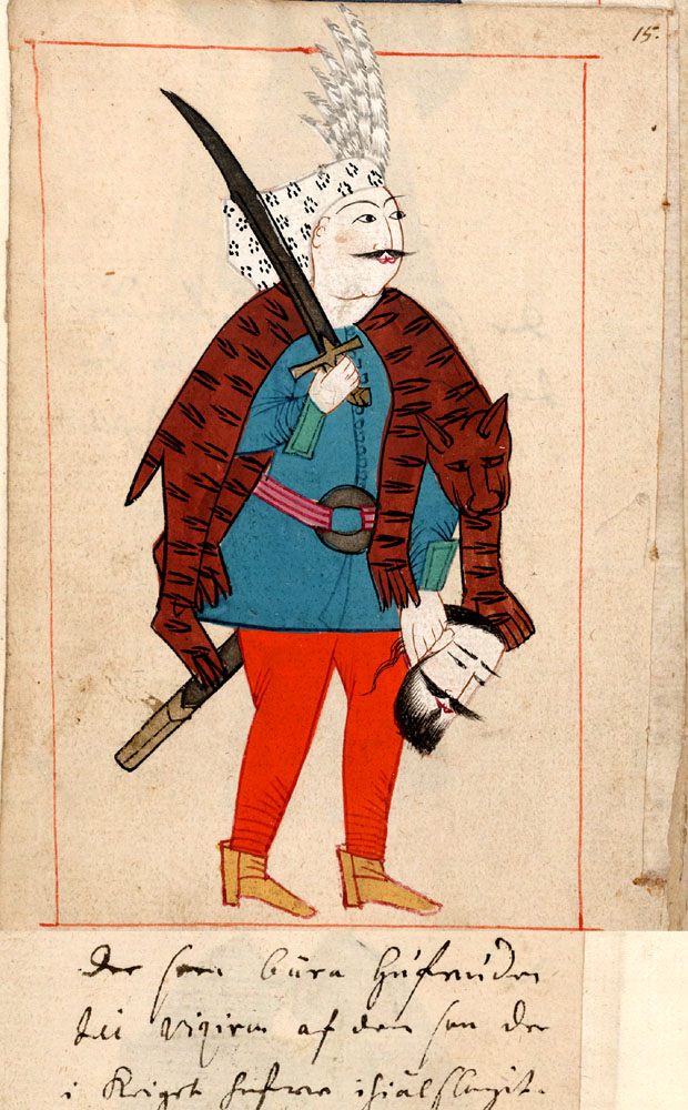 Turkish soldier from Ralamb Costume Book. Miniatures in Indian ink with gouache and some gilding. They were acquired in Constantinople in 1657-58 by Claes Rålamb who led a Swedish embassy.